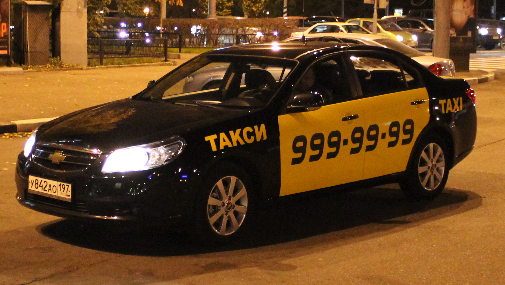 taxi moscow russia